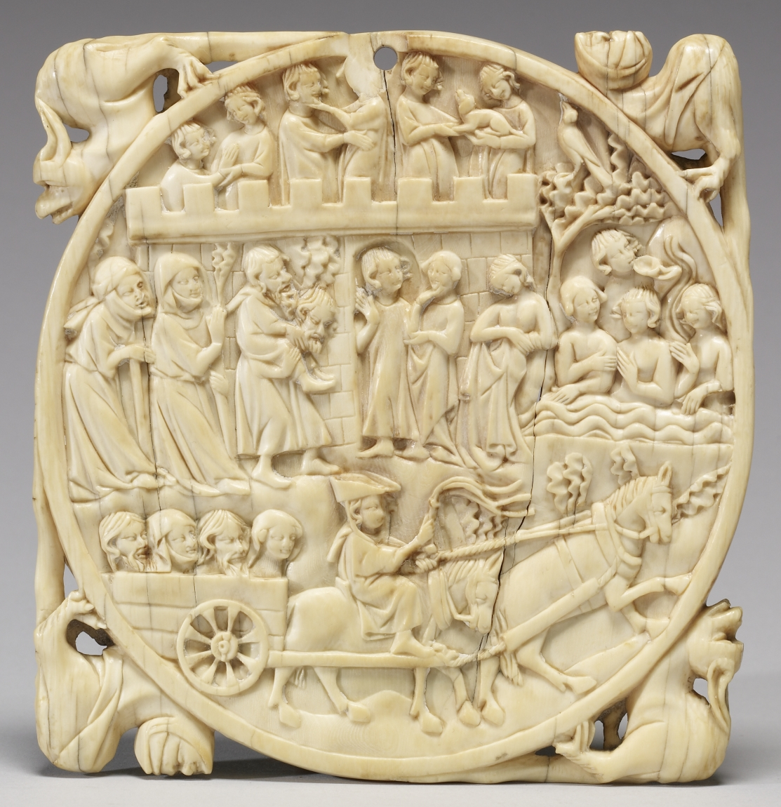 Originally this ivory plaque was the back for a disk-shaped mirror of polished metal. It is carved with a scene of the Fountain of Youth. Elderly men and women walk or travel by cart from the left to the mythical Fountain of Youth at the right. They bathe and reemerge as young couples who enter into the castle at the center and court above upon the battlements. The frame, a circle within a square, has four crouched dragon-like creatures in each corner.